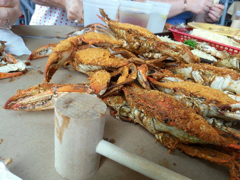 Marylanders steam blue crabs, usually in water, beer and Old Bay Seasoning. Southern State cooks, Marylanders insist, boil crabs and along with it, boil away all the true flavor.